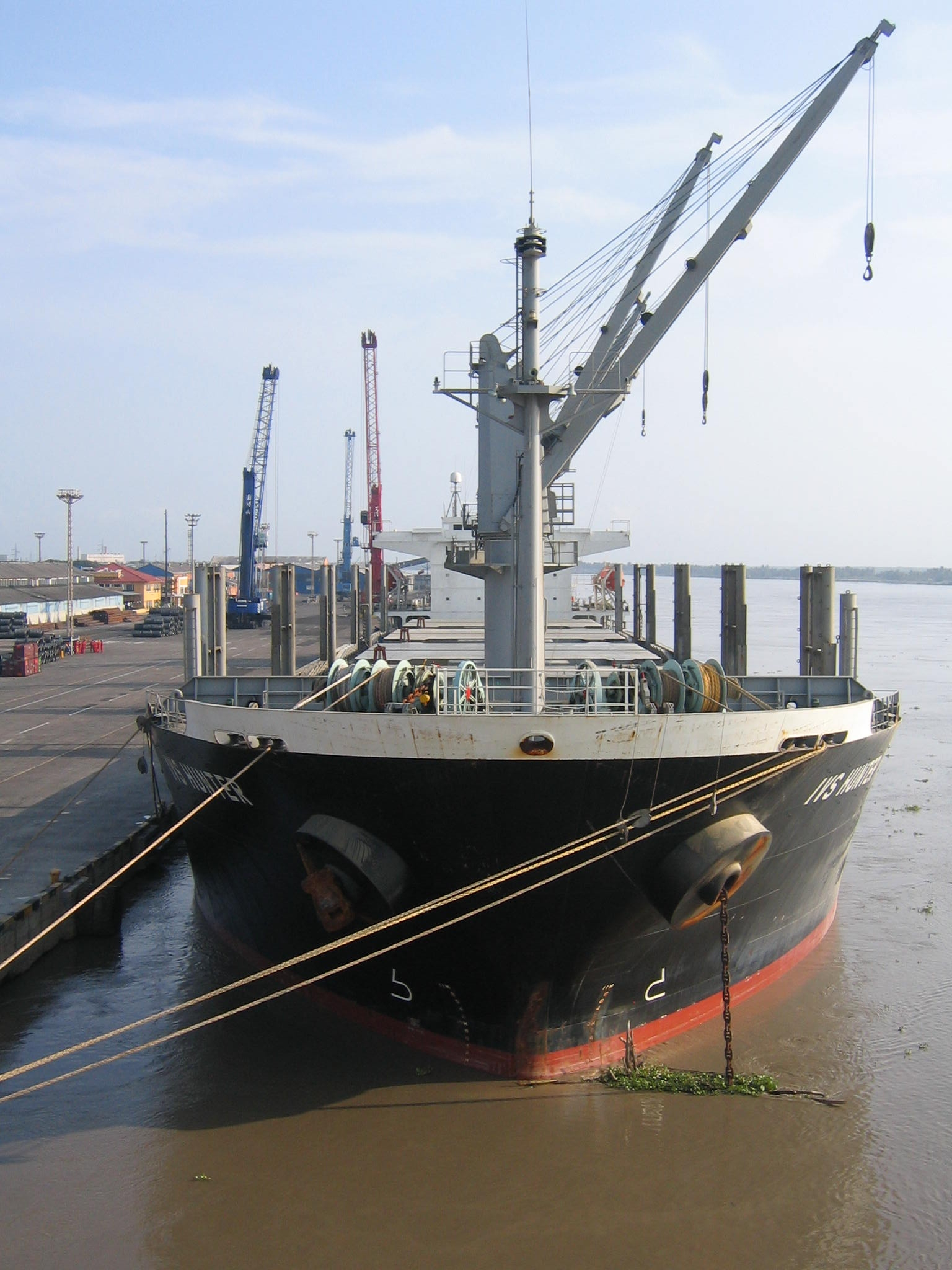 Cranes on board the IVS Hunter